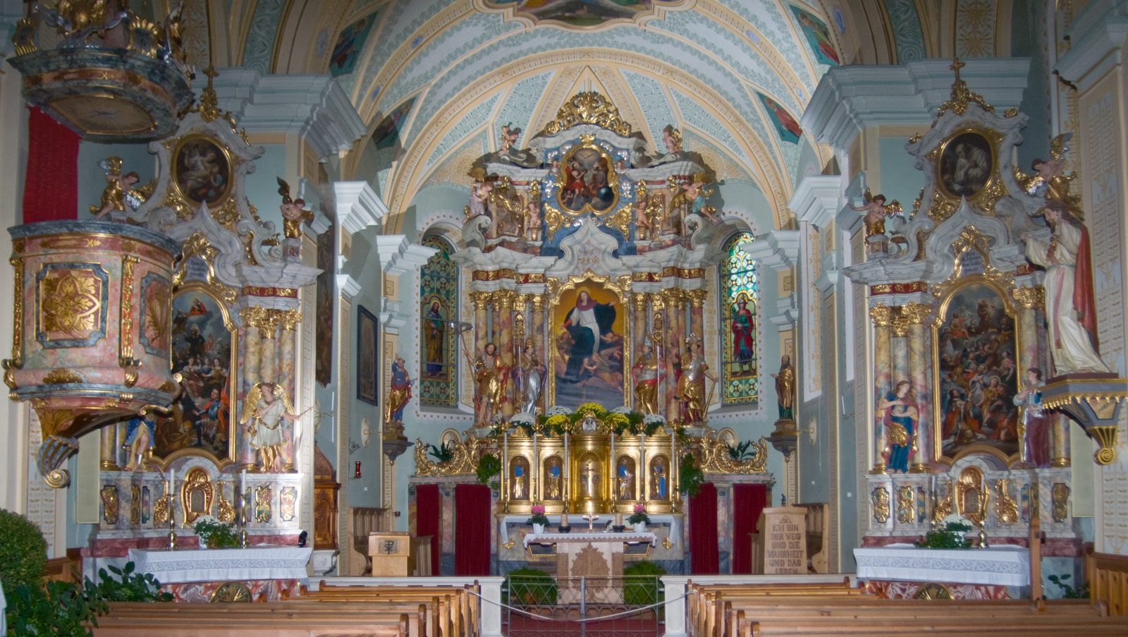 Interior baroque church "Unser Frau" (Our Lady) in Schnals, South Tyrol